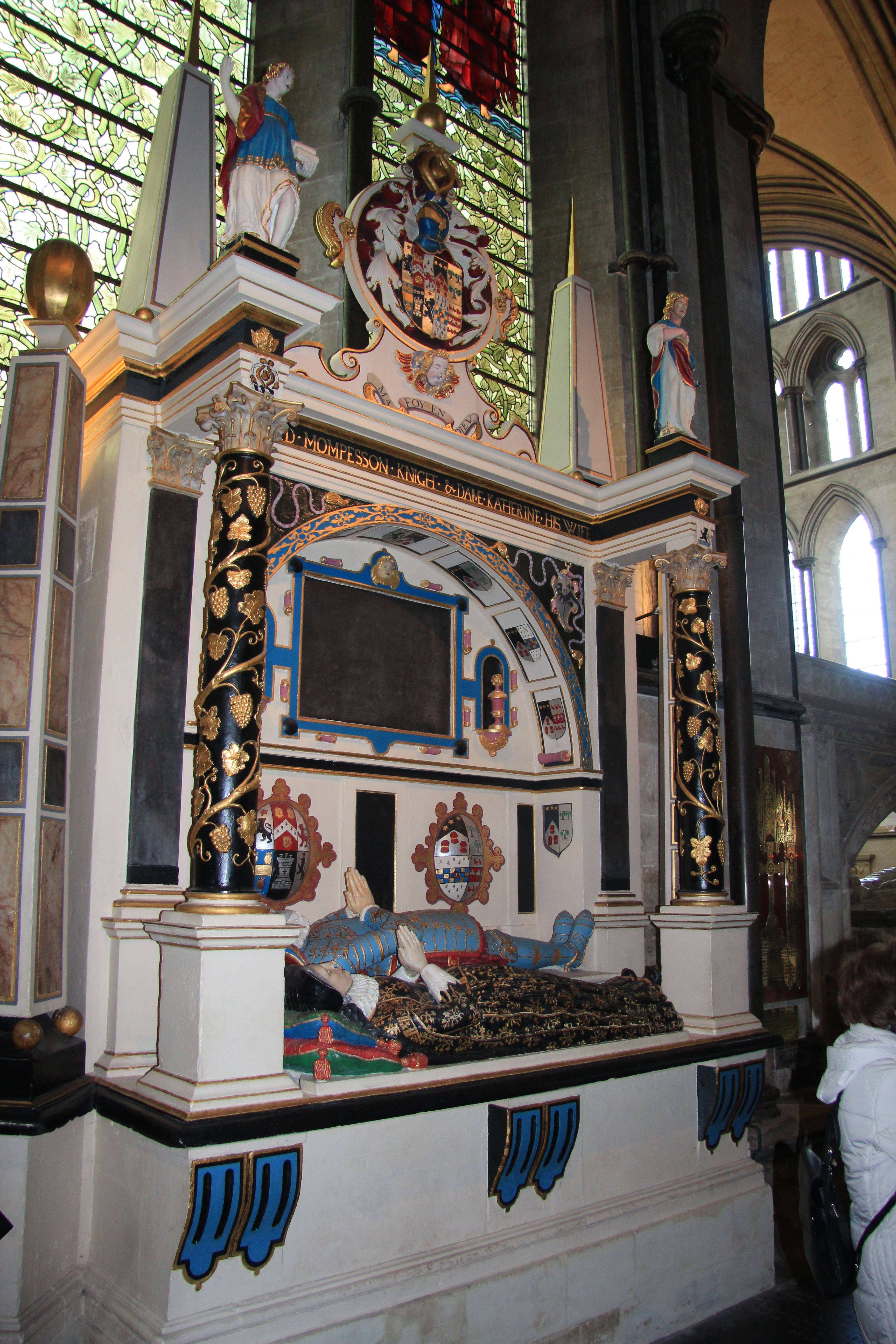 Salisbury Cathedral. Monument to Sir Richard Mompesson (died 1627), of Mompesson House, Cathedral Close, Salisbury, Wiltshire, Member of Parliament for Devizes in 1593. ( His splendid monument with effigies of himself and his third wife Katherine Pakington, da. of Sir Thomas Pakington of Aylesbury, Bucks., wid. of (Sir) Jasper Moore, survives in Salisbury Cathedral.